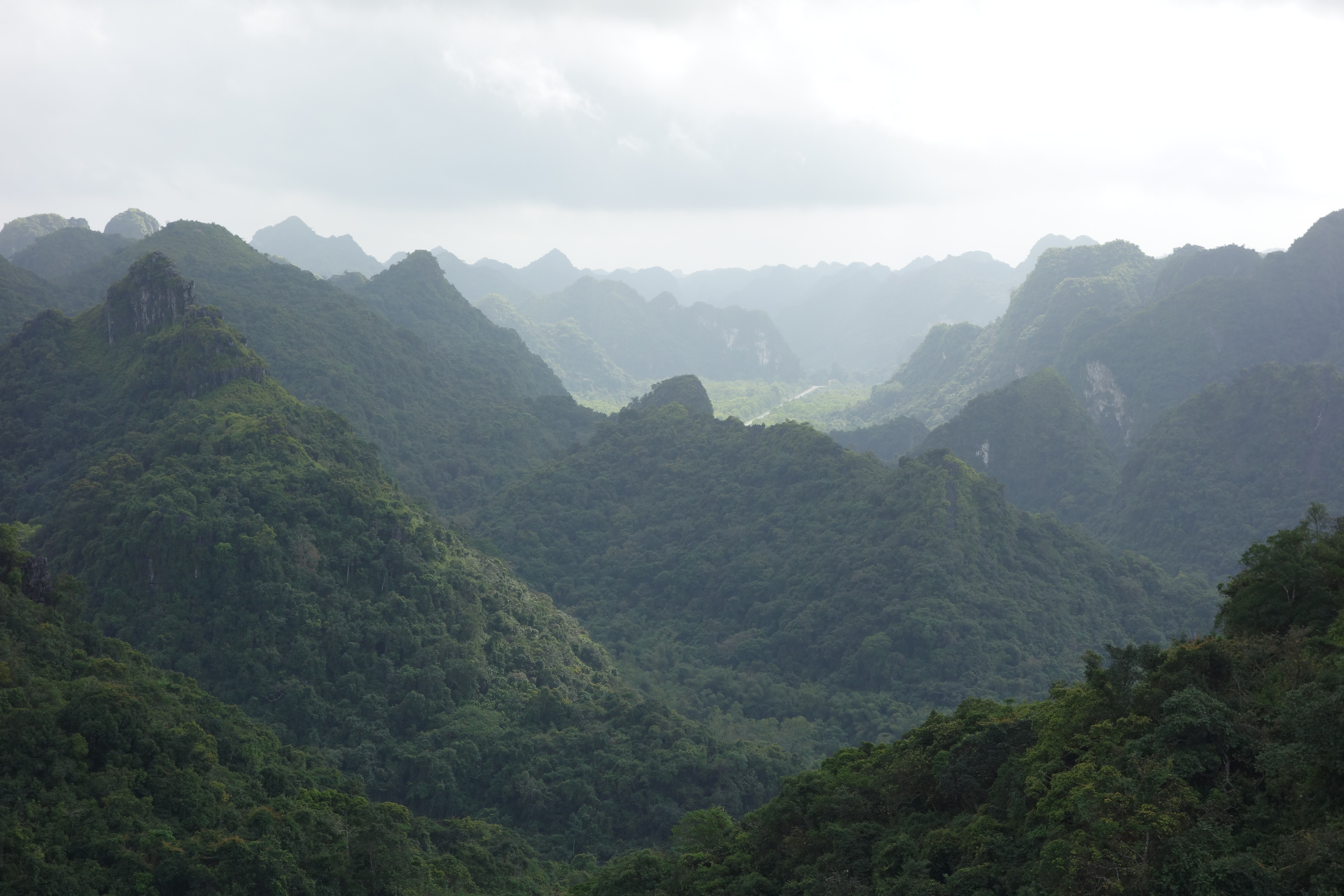 Cat Ba National Park. The road faintly visible connects the park headquarters with Cat Ba township.